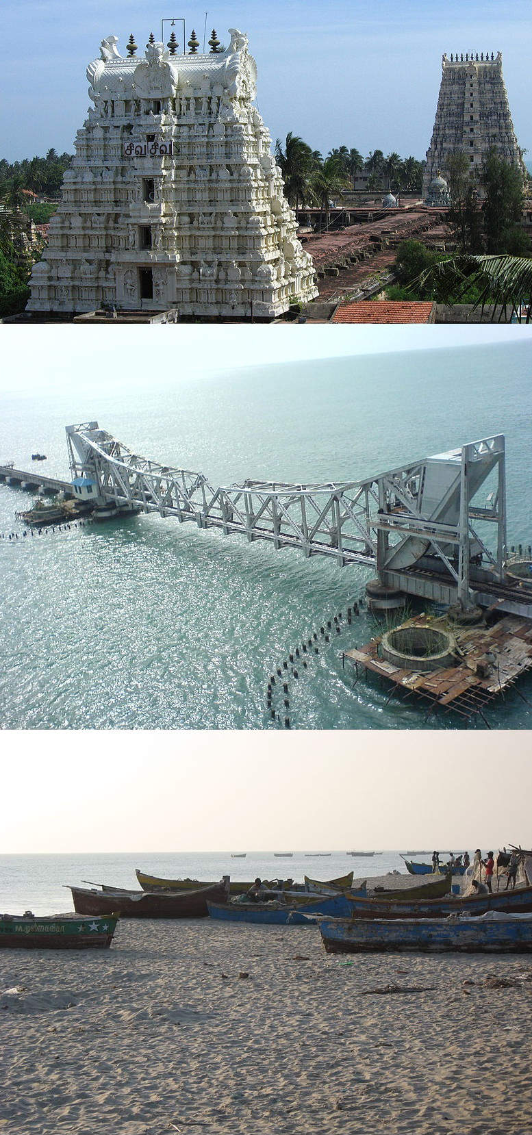 File montage from existing commons files. User details are added. The previous upload for the same file was wrongly carried out.*File:Pamban_Rail_Bridge.jpg *File:The_great_corridor_at_Rameswaram_Ramanathaswamy_Temple.jpg *File:Rameswaram_temple_(11).jpg *File:RameshwaramScenicView.jpg